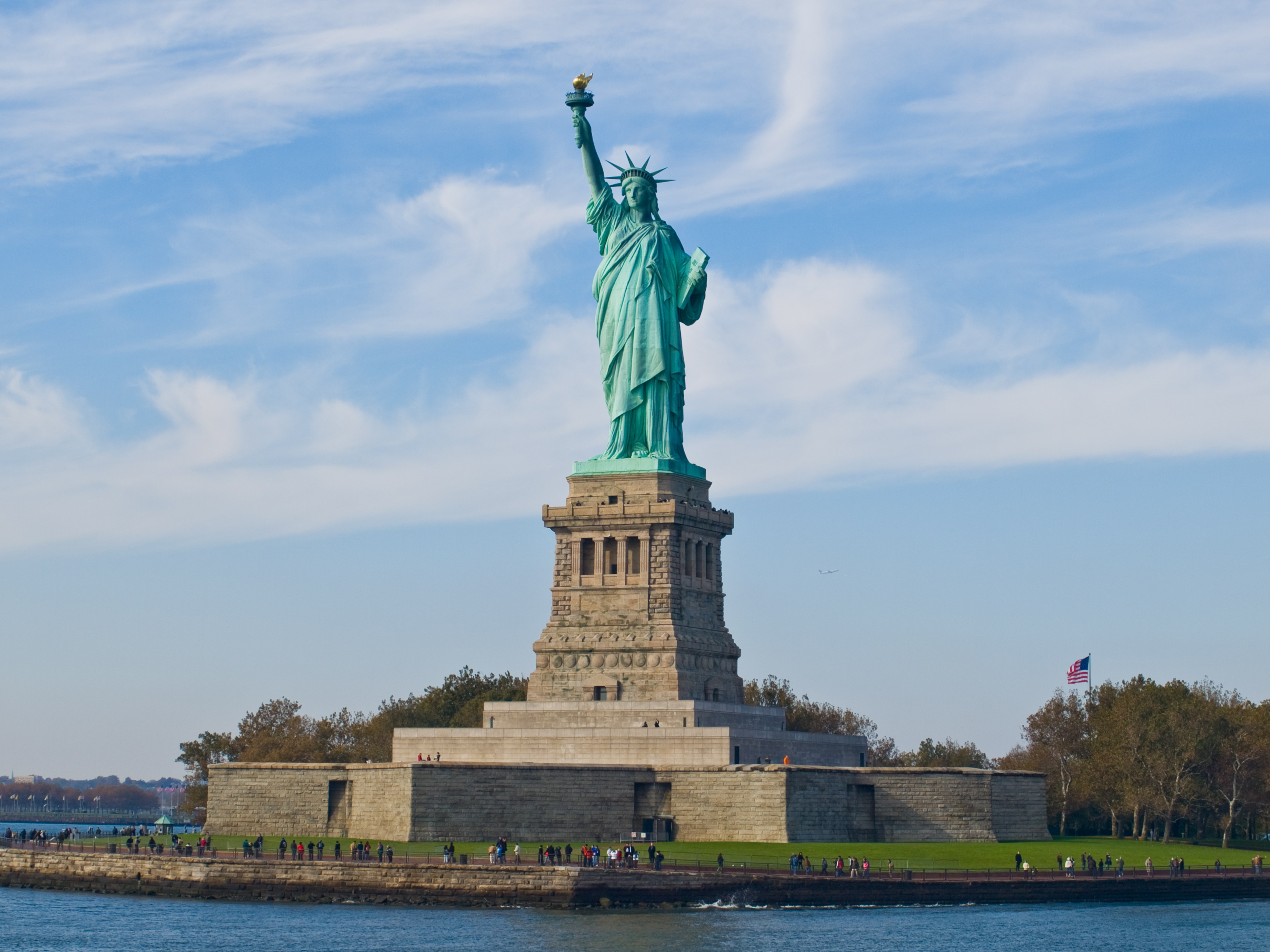 Statue of Liberty (more formally, Liberty Enlightening the World, and more colloquially, Lady Liberty) is a structure located on Liberty Island in New York Harbor, presented to the United States on the centennial of the signing of the American Declaration of Independence as a gift from France. It was designed by Frédéric Bartholdi and gets its green coloring from patination of the outer copper covering. The statue is world-renowned for being the first thing sea-borne visitors, immigrants, and returning Americans see upon entering New York Harbor and has been known as a beacon of freedom to much of the world. It earned UNESCO World Heritage Site status in 1984.